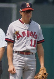 California Angels shortstop Gary DiSarcina at Kauffman Stadium in 1992.